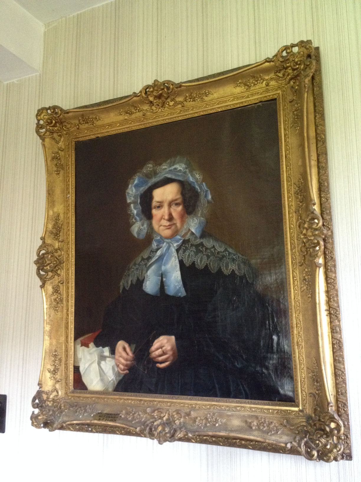 Portrait of Marie-Victoire de Thiriart de Mutzhagen executed by Joseph Marie Vien The Younger in 1839.